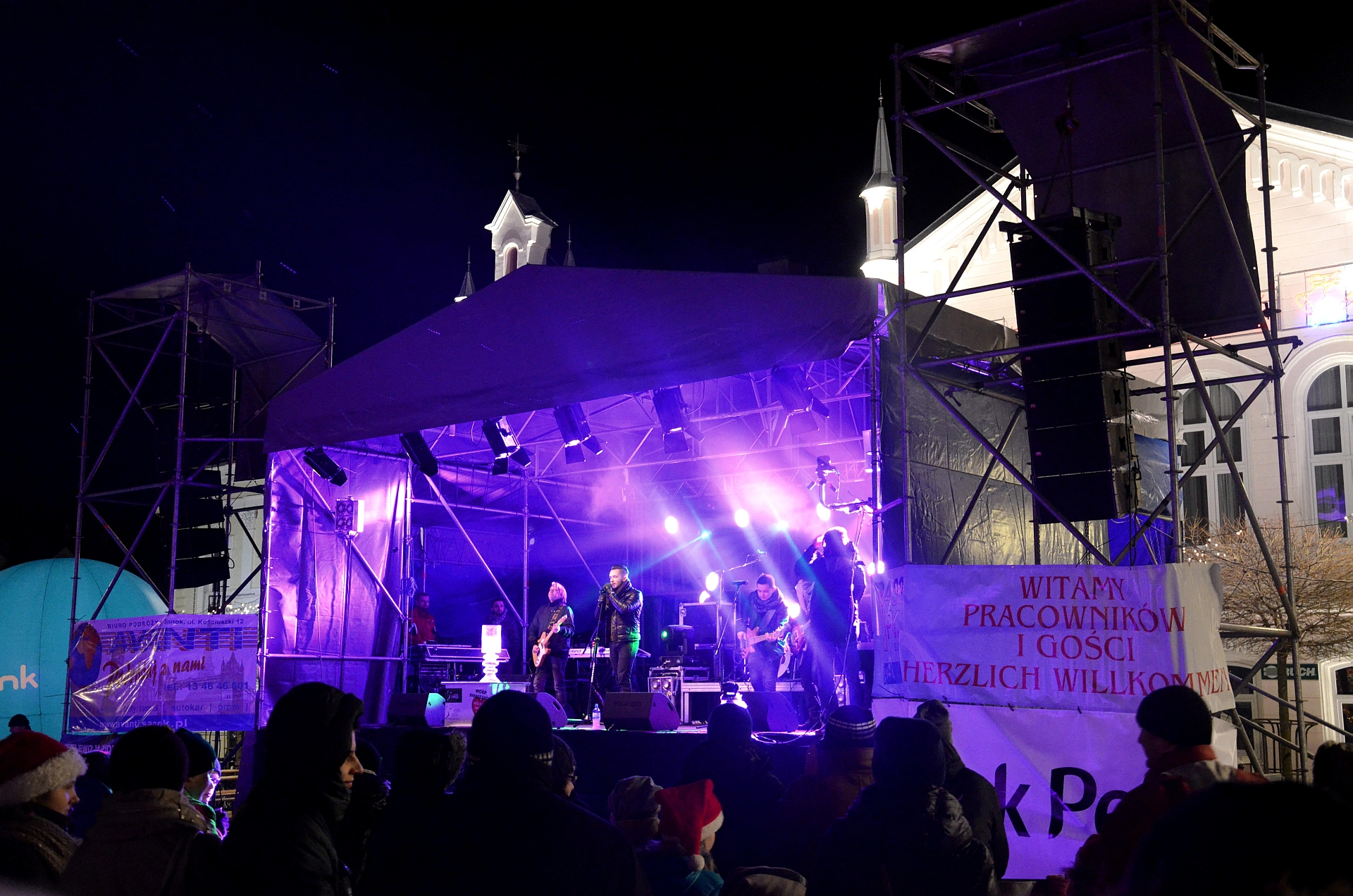 Great Orchestra of Christmas Charity